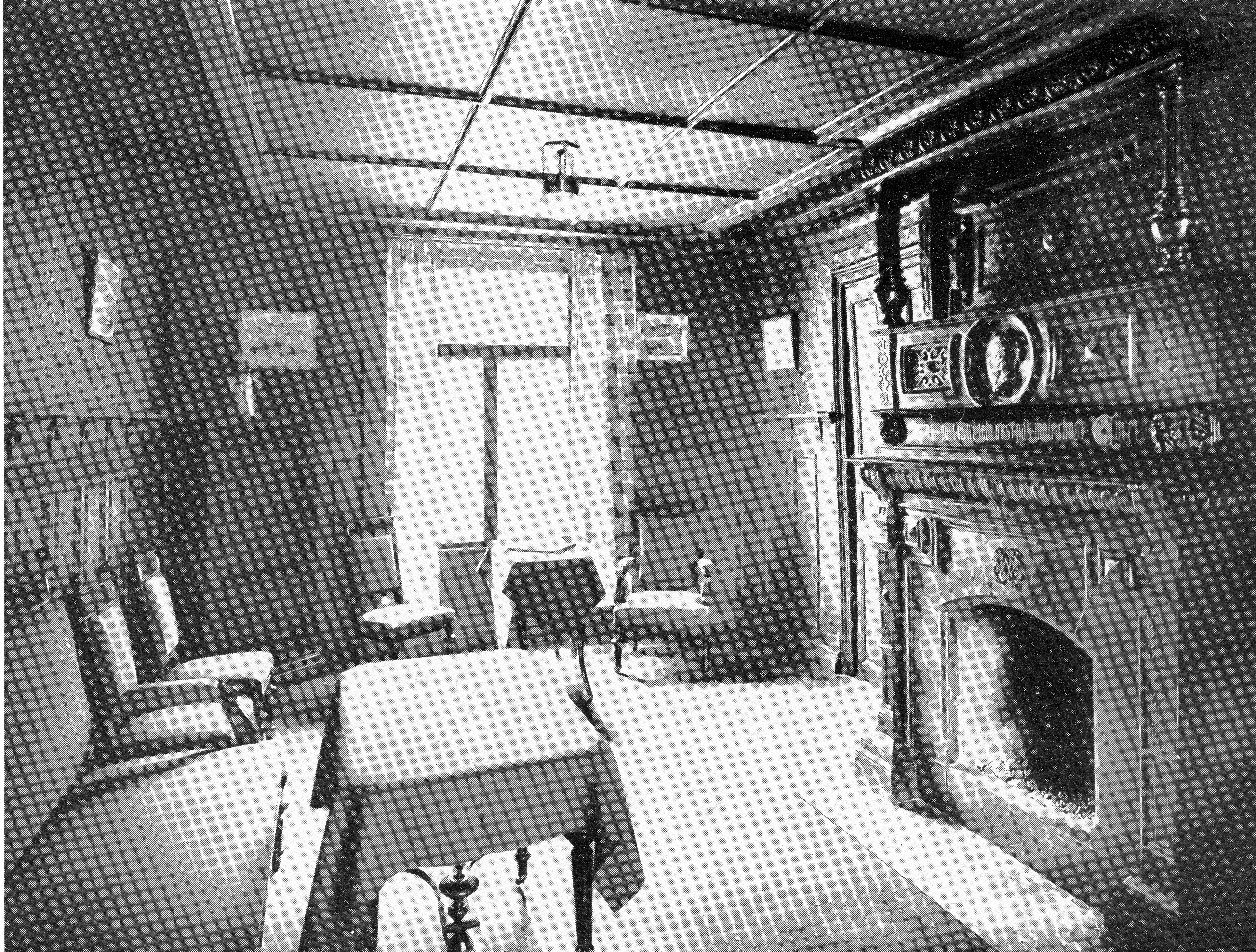 Kalmar Nation, Uppsala. First nation house. The hall.